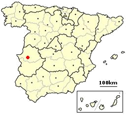 Location of Cáceres in Spain.